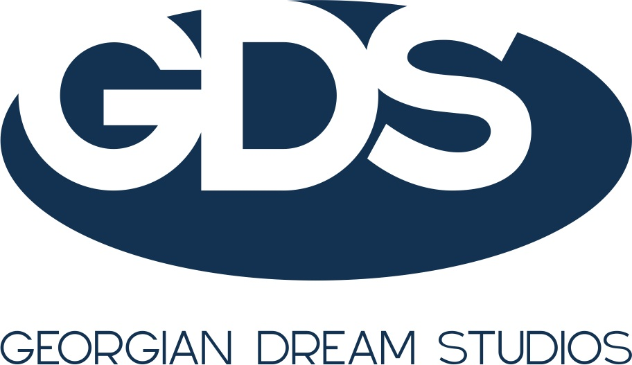 official logo